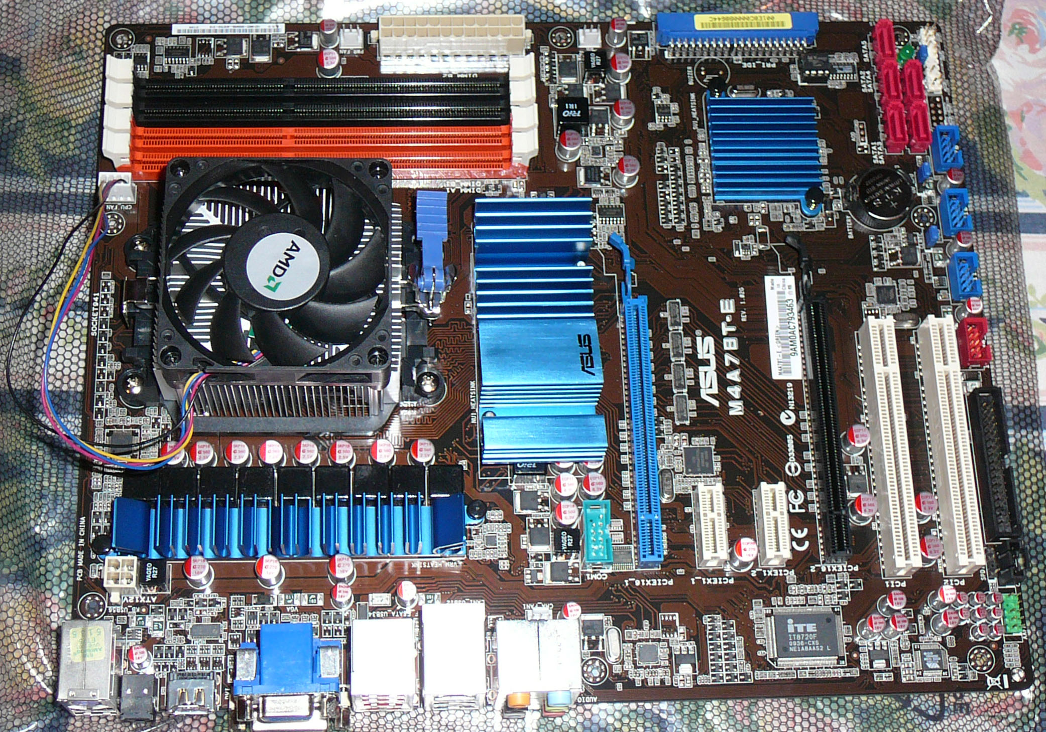 Asus M4A78T-E motherboard with AMD processor. First included in